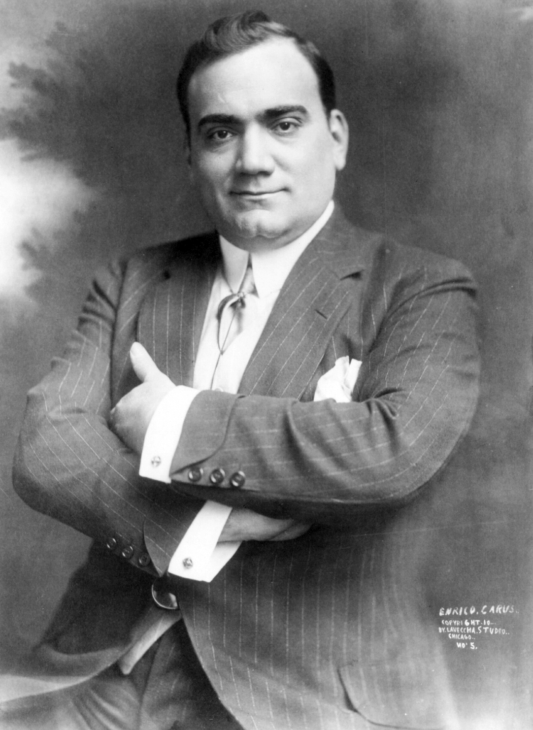 Enrico Caruso, 1873-1921, half-length portrait, seated, facing left, arms folded